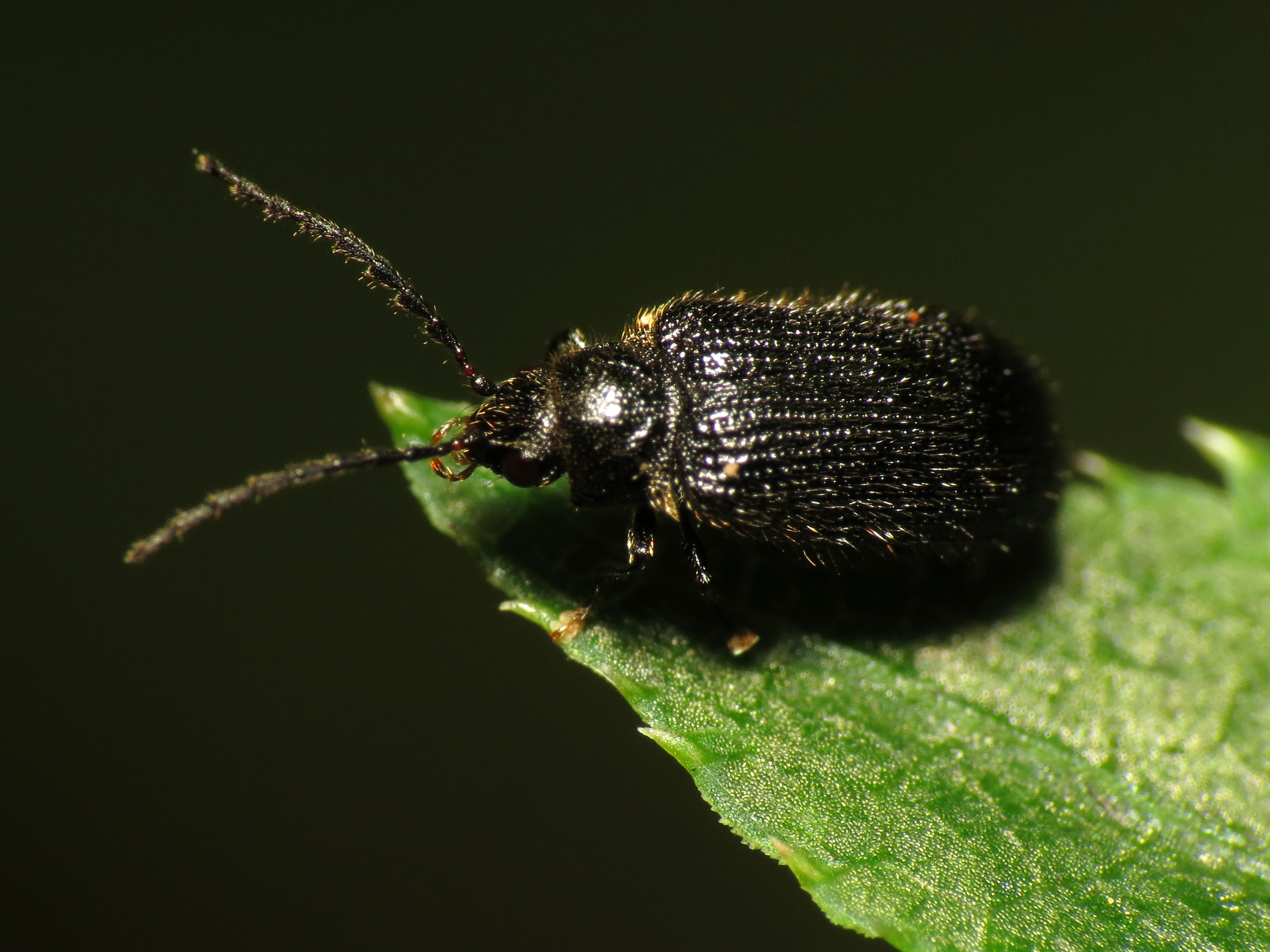 Eurypogon niger. Rock Creek Park, Washington, DC, USA